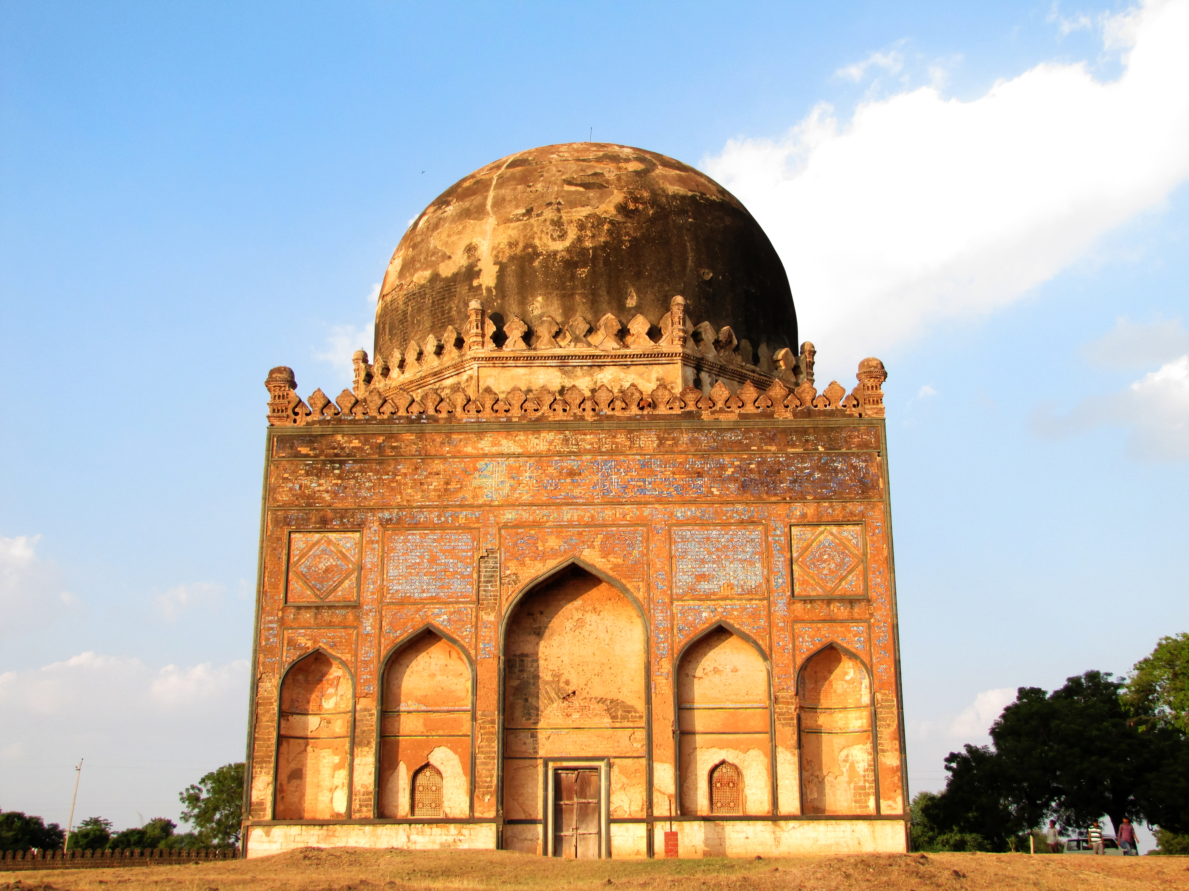 Tomb of Empress of Sultan Ahmed Shah Al Wali Bahamani